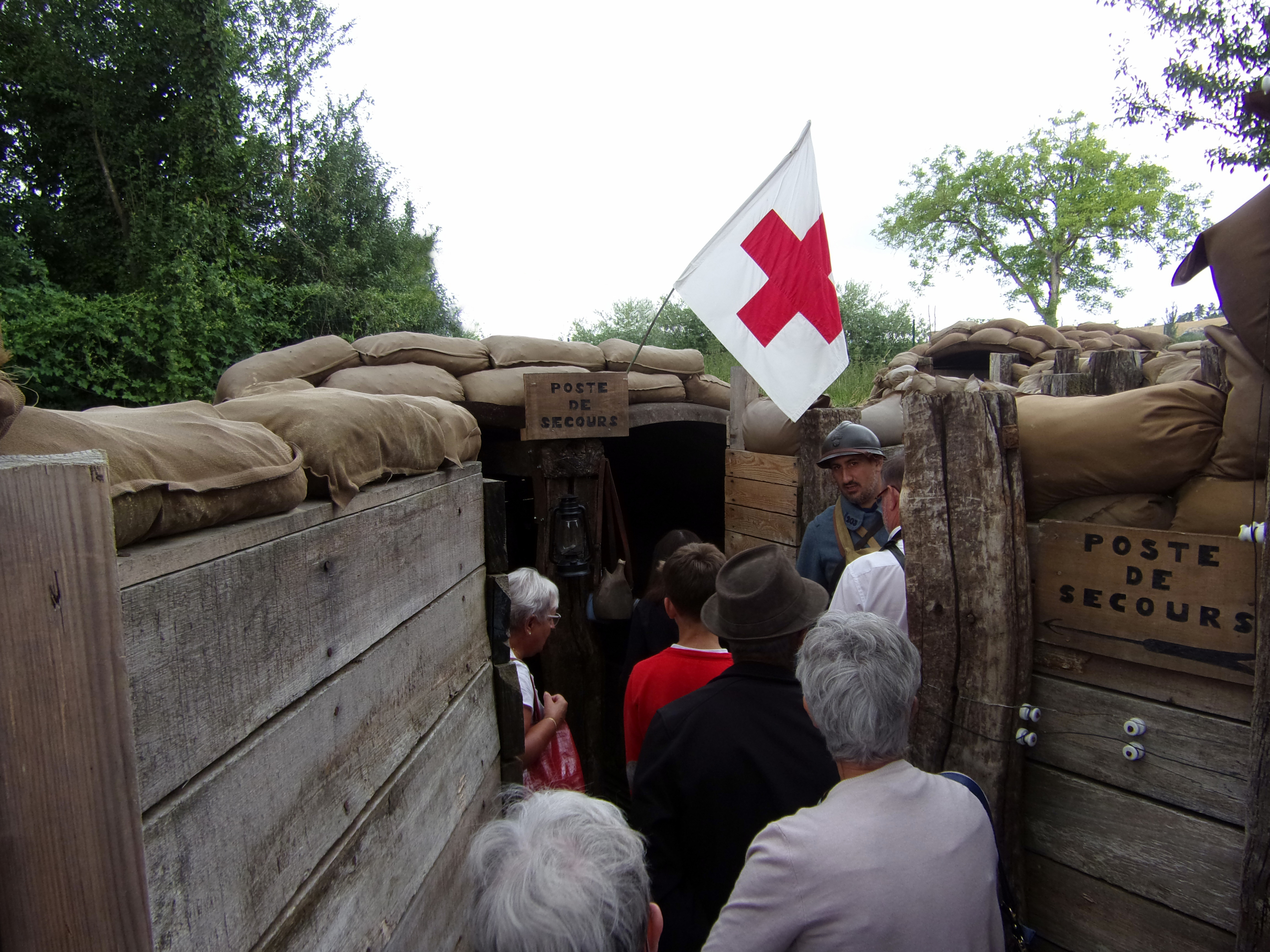 Visite guidée d'un groupe à la Tranchée de Chattancourt